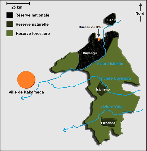 Kakamega forest map